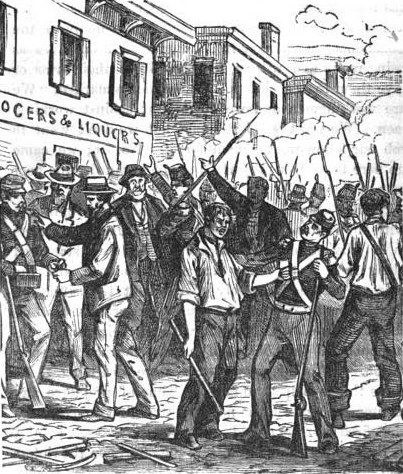 Members of the Sixteenth Regiment surrendering their arms to the mob in Reading, PA